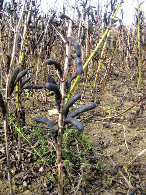 Field beans near Pendomer These beans were sown in the spring and are just about ready for harvesting. Bees and their hives were brought on to the farm to pollinate the plants when they were in flower. These beans will be sold for cattle feed. Some field beans are exported to Germany to be put into a certain type of biscuit. For - Cached - Similar